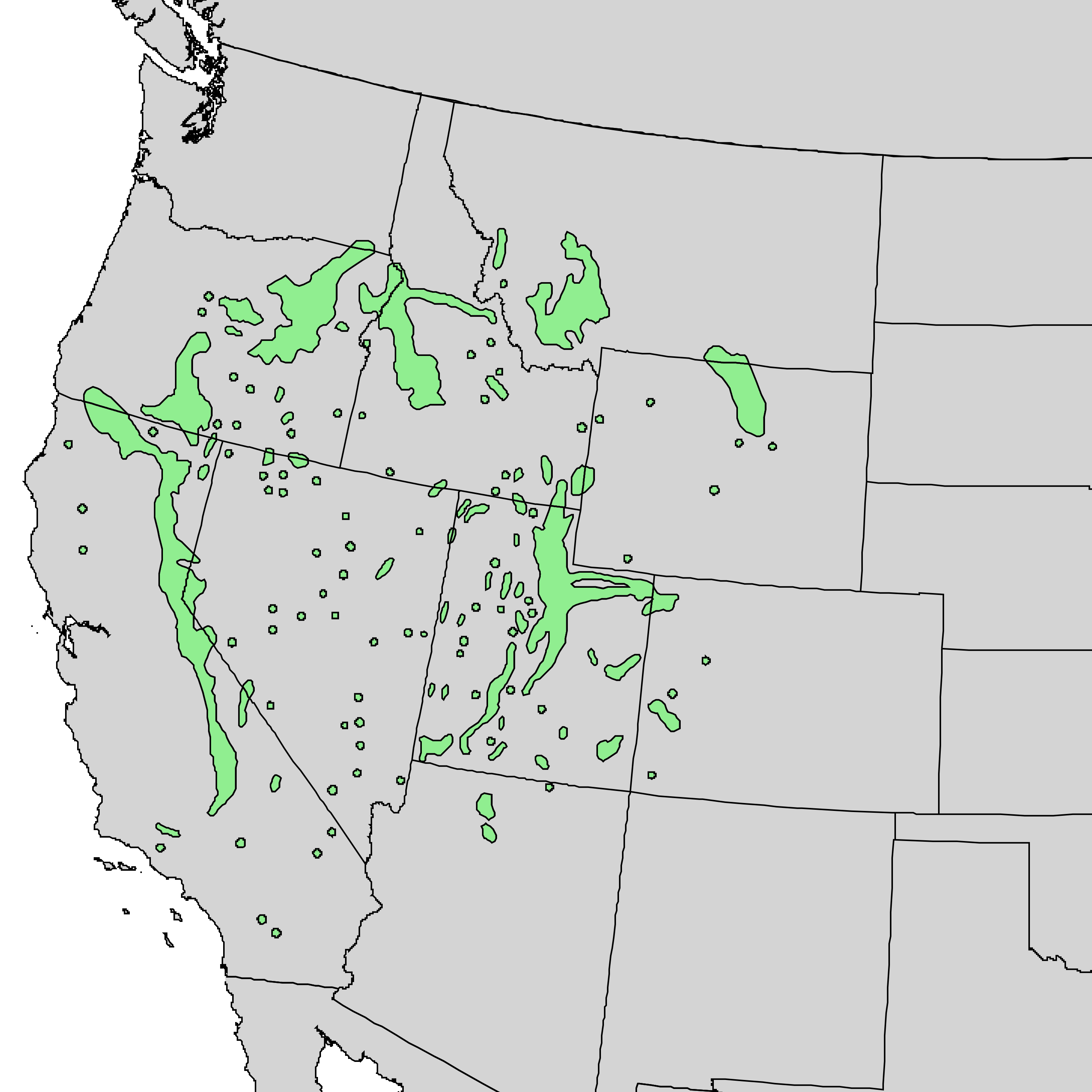 Natural distribution map for Cercocarpus ledifolius (curlleaf cercocarpus)